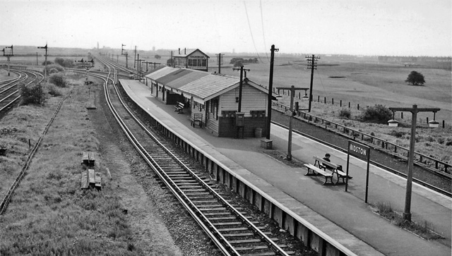 Bidston Station View westward, towards West Kirby (electrified Wirral Railway, from Birkenhead and Liverpool) and ex-GC line to Wrexham curving to left. Lines on left led to Bidston Sidings (ex-LNER).